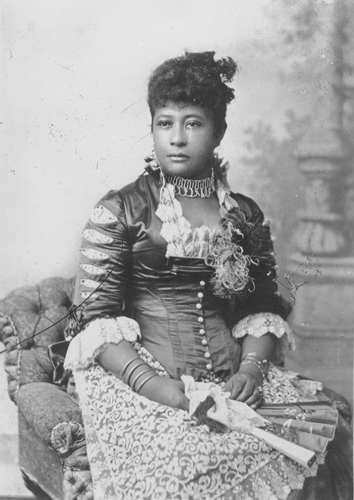 Princess Miriam Kapili Kekauluohi Likelike (1851–1887) was the younger sister of the last two ruling monarchs of the Kingdom of Hawaii.